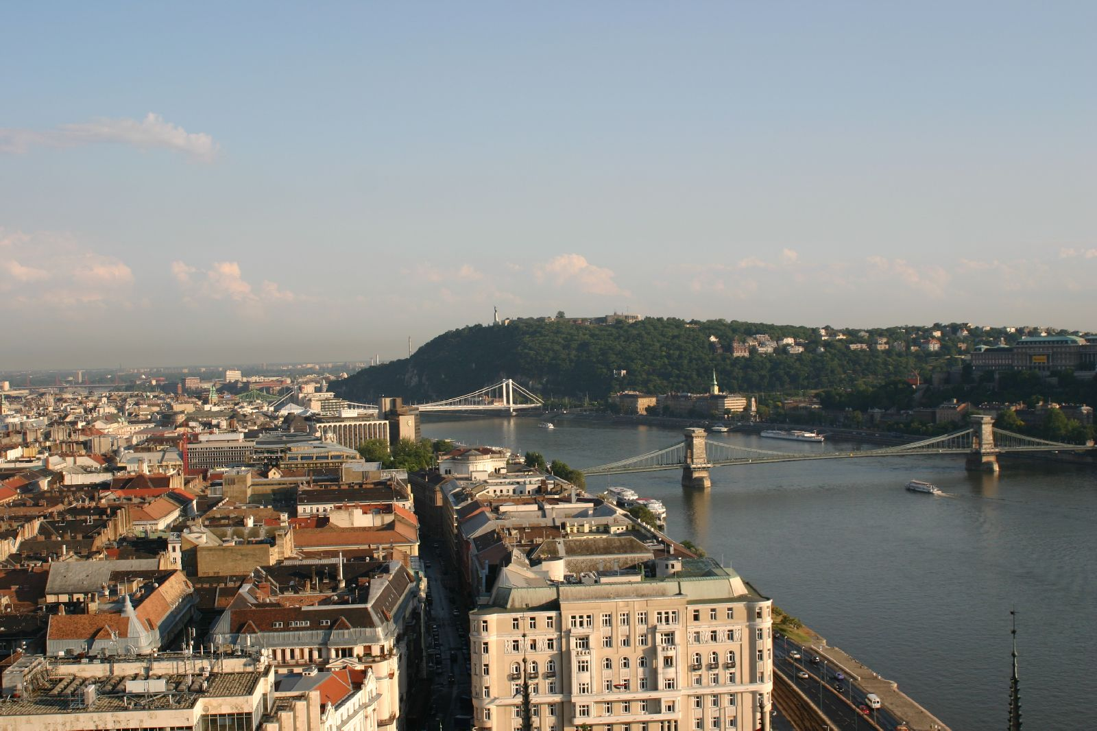 The Chain Bridge, Elizabeth Bridge with Gellert Hill